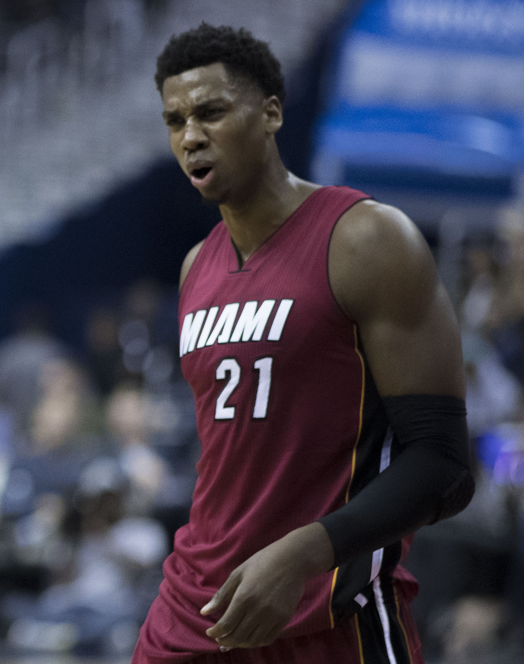 Heat at Wizards 11/19/16